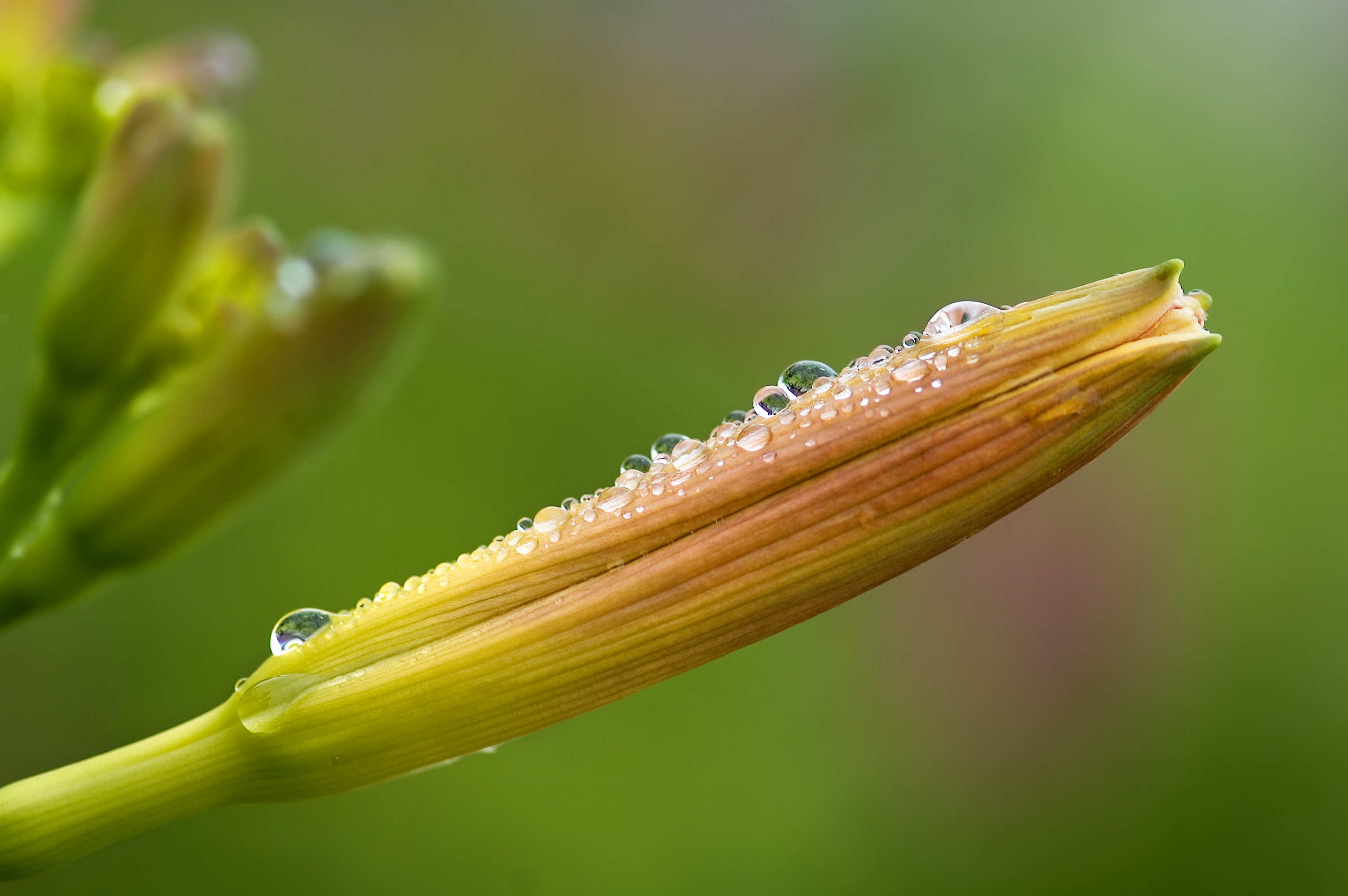 Hemerocallis (Thunb.) Lindl. : flowering shoot, photographed in Switzerland after a small rain in my garden(Synonyms: Hemerocallis (Thunb.) Spach, )